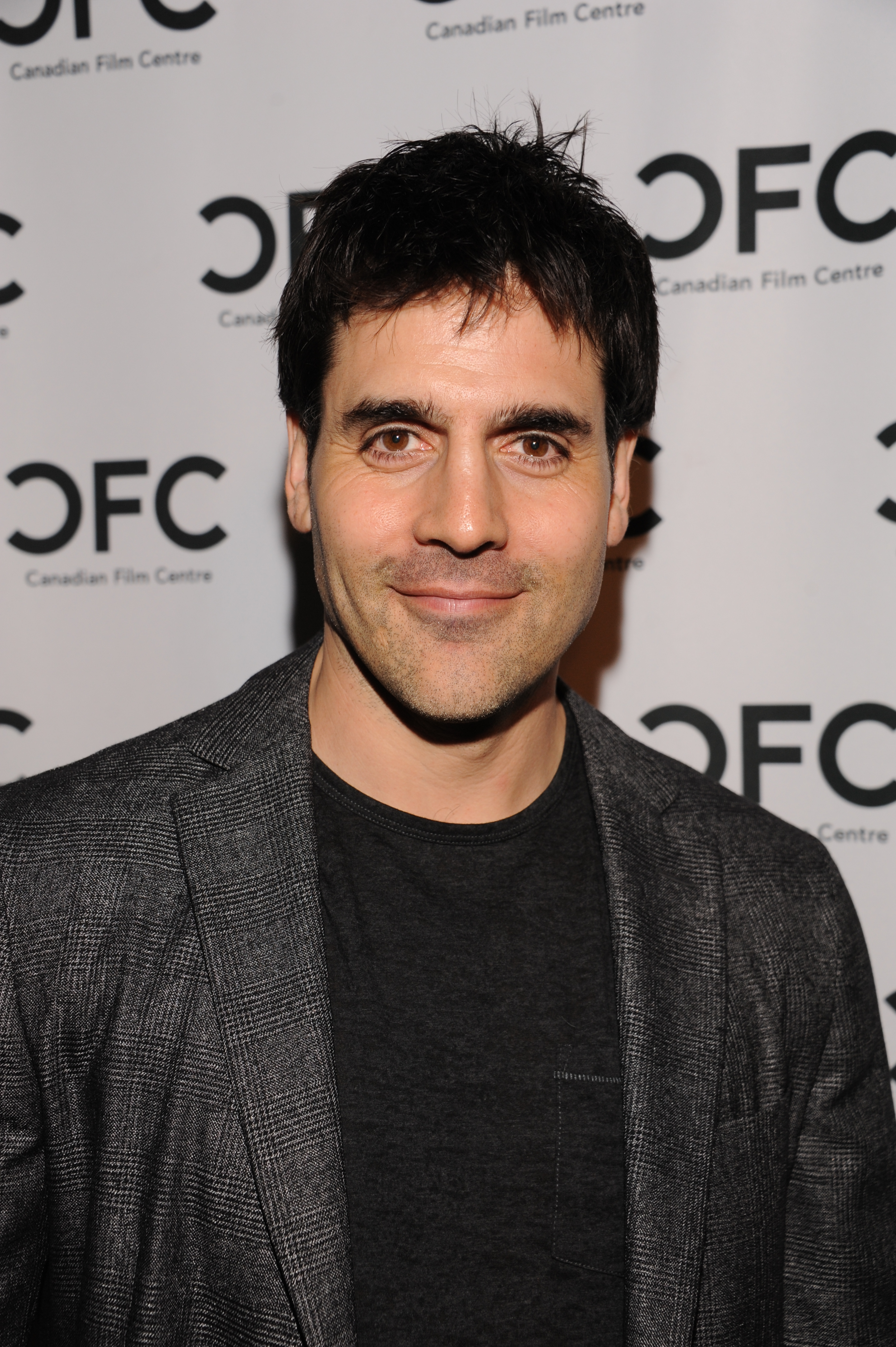 Ben Bass at a Canadian Film Centre & Variety-hosted reception for the Telefilm Canada Features Comedy Lab. To learn more about the Canadian Film Centre, please visit: Photo by Mark Sullivan